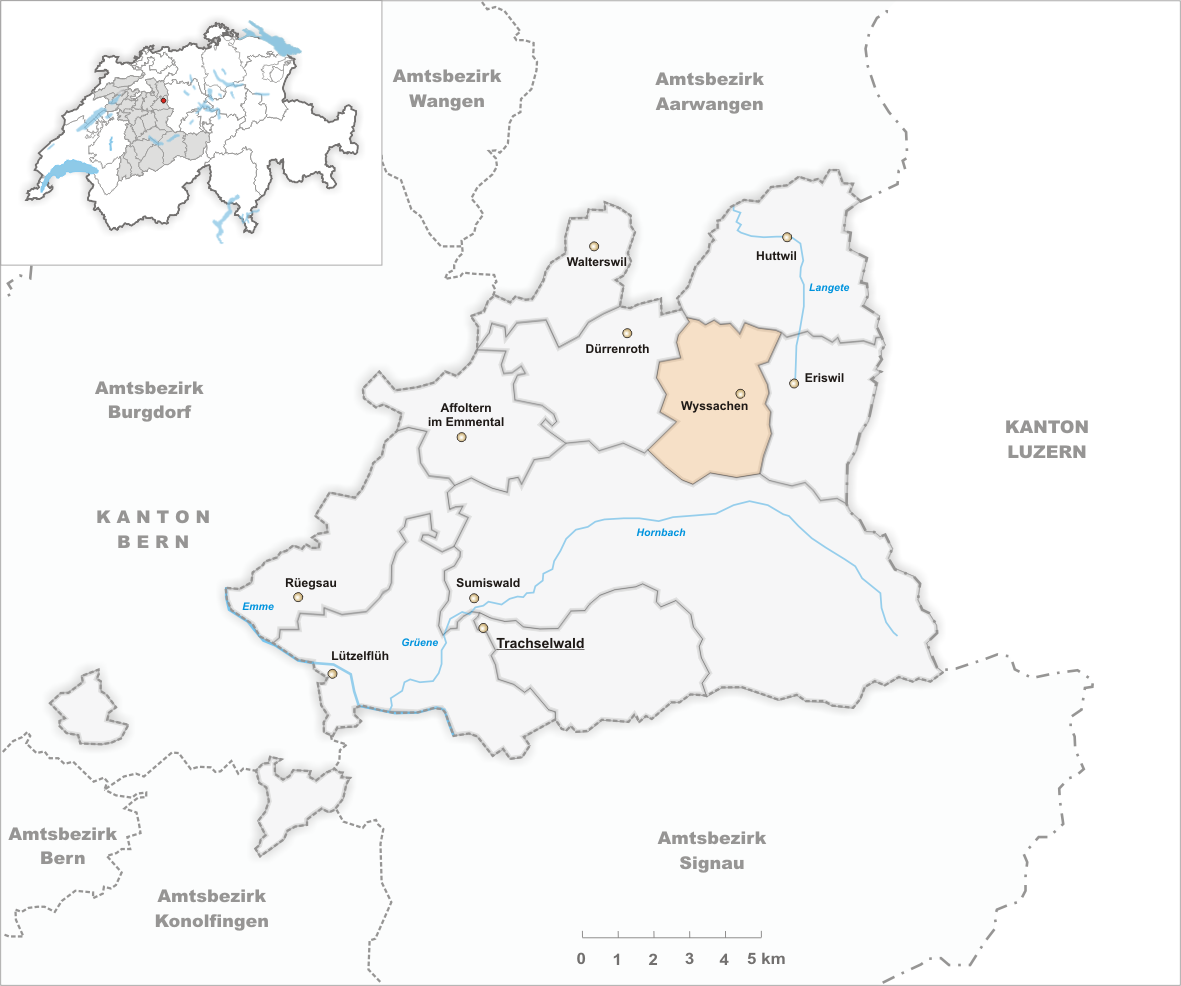 Municipality Wyssachen